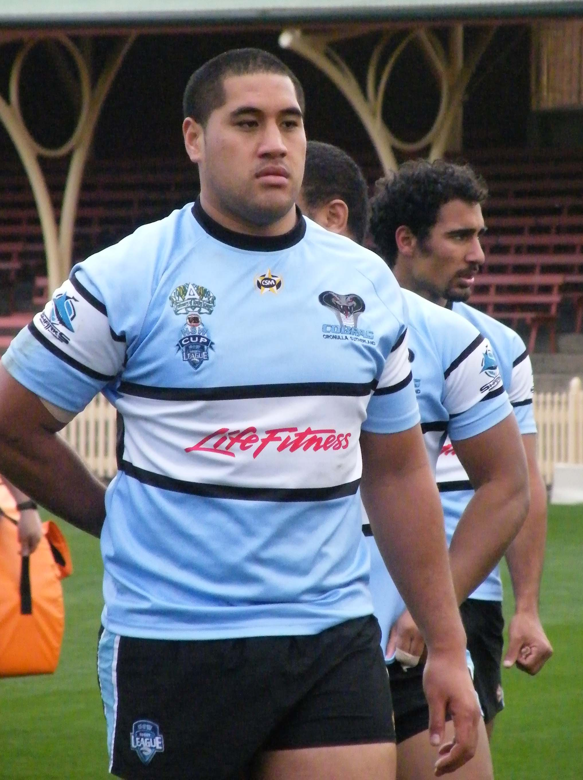 Cronulla prop forward Eddie Sua